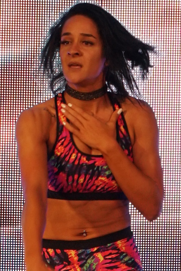 NOLA 2018 - WWE Axxess - Saturday - Dakota Kai Vs Nikki Cross Dakota Kai def. Nikki Cross ( Deux semaines a Nola pour la ville et pour WWE Wrestlemania XXXIV Two weeks Nola for the city and for WWE Wrestlemania XXXIV )